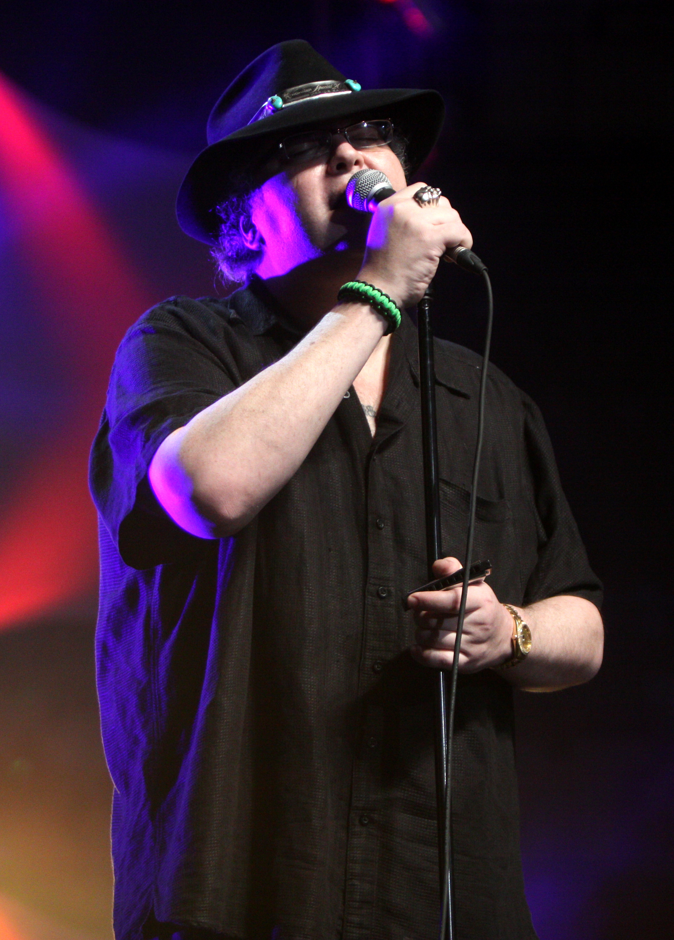 John Popper performing at the USF Arena in 2012.